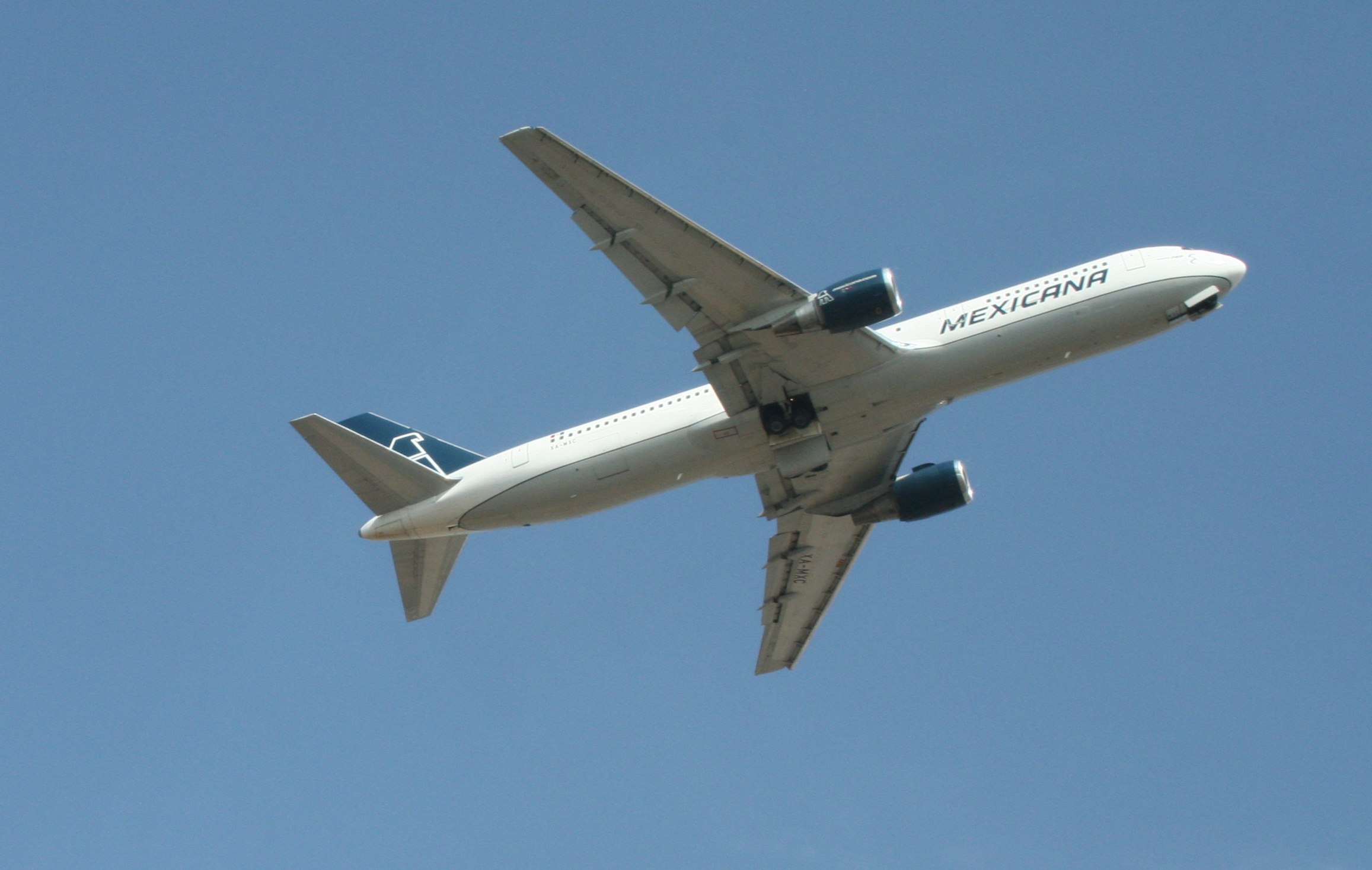 B-767 of MX Airlines Taking off on Runway 05L MEX